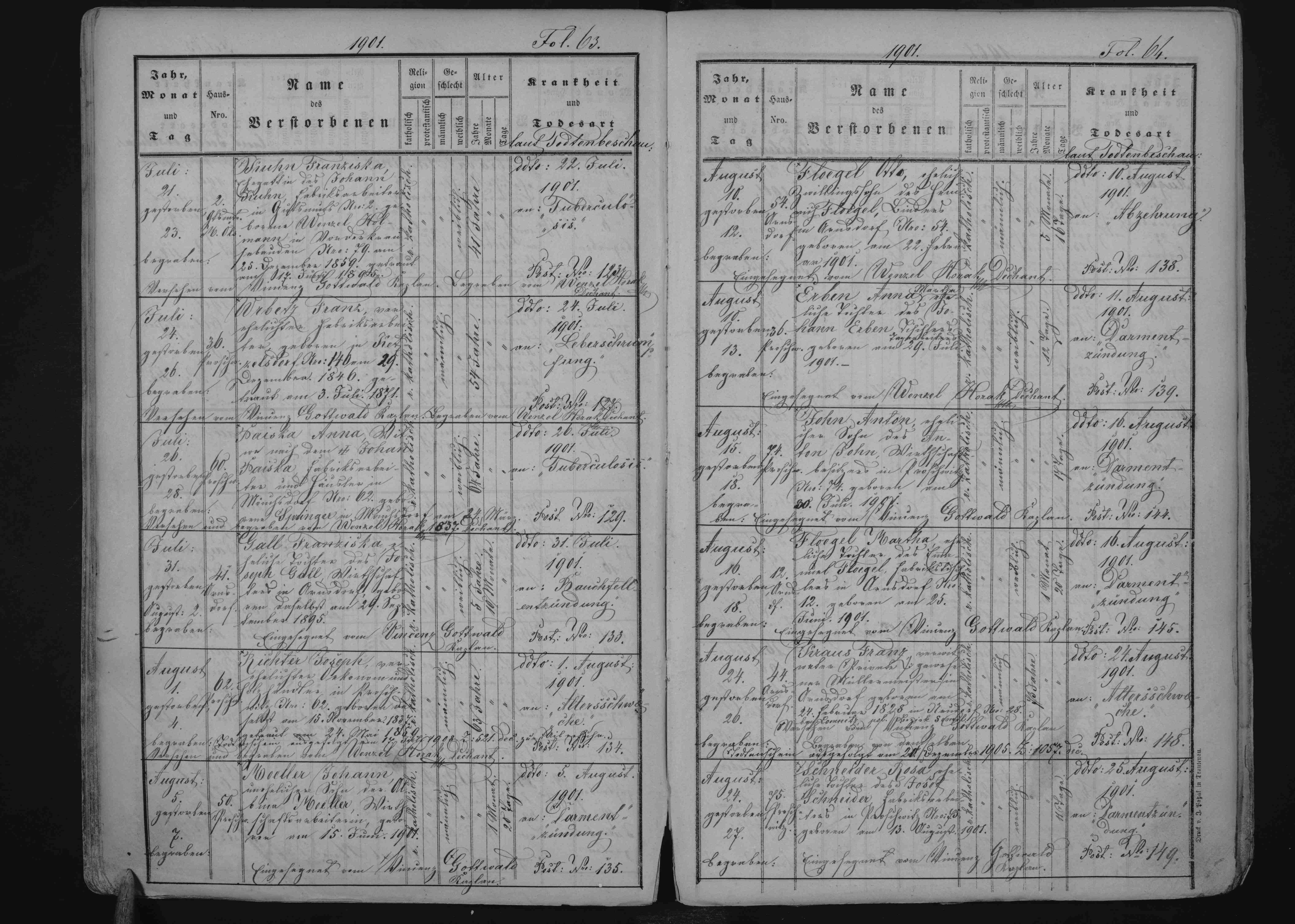 A page from a parish register, containing among others the death record of Josef Richter (1837-1901), a farmer and politician.